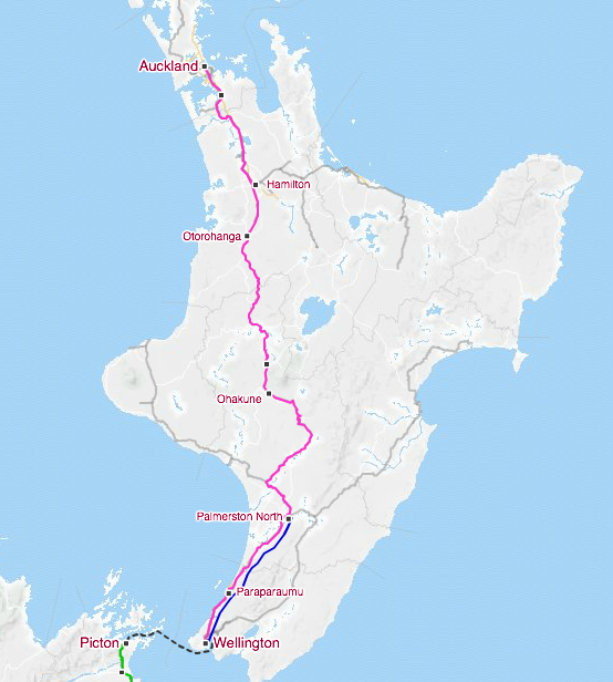 KiwiRail passenger train map Legend: ━━━ Northern Explorer ━━━ Capital Connection